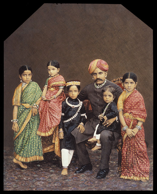 Chamarajendra Wadiyar X with his children from Personal family collection of Rajachandra